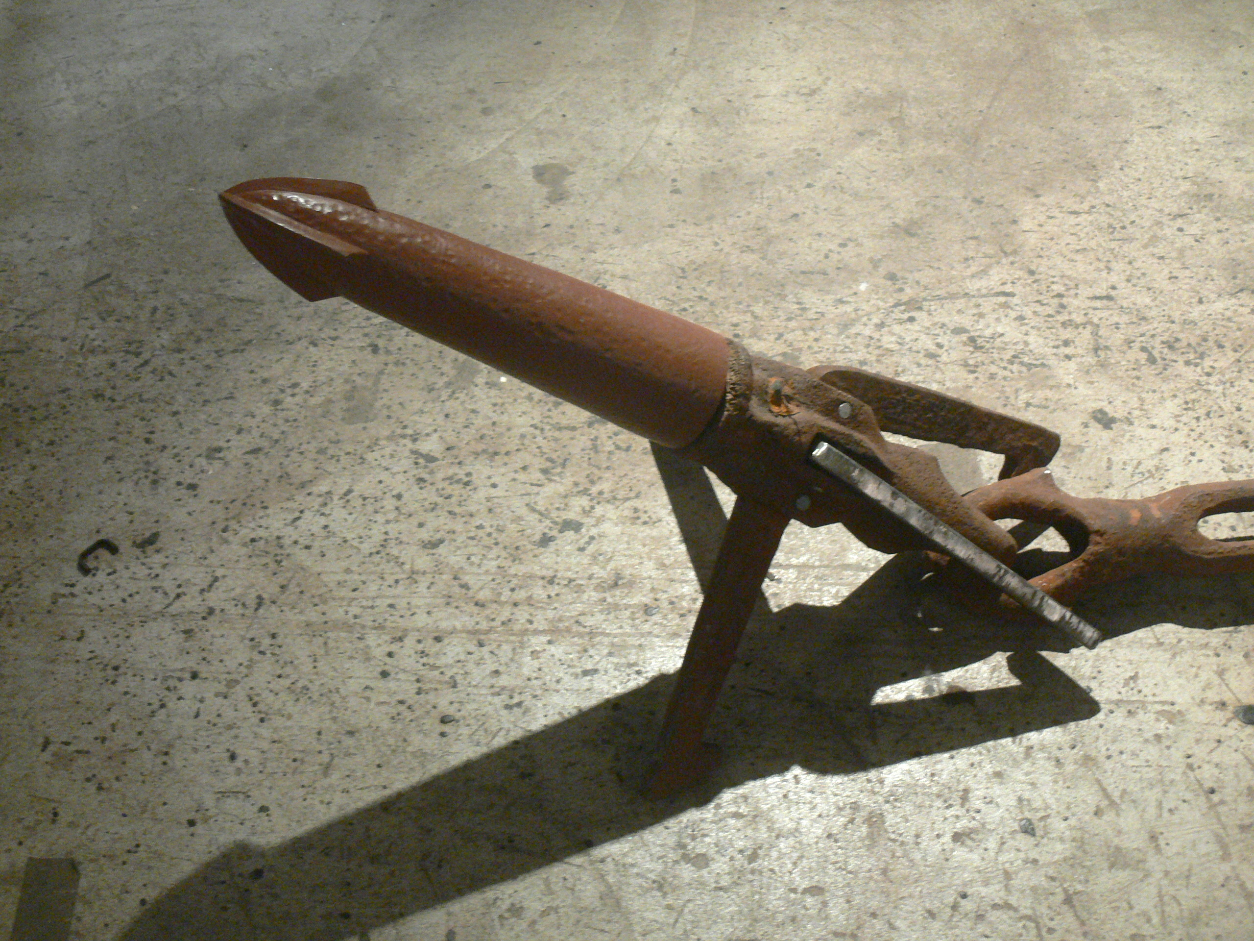 Whale Museum in Húsavík. Explosive harpoon for bigger whales, used in Iceland 1948-1989.